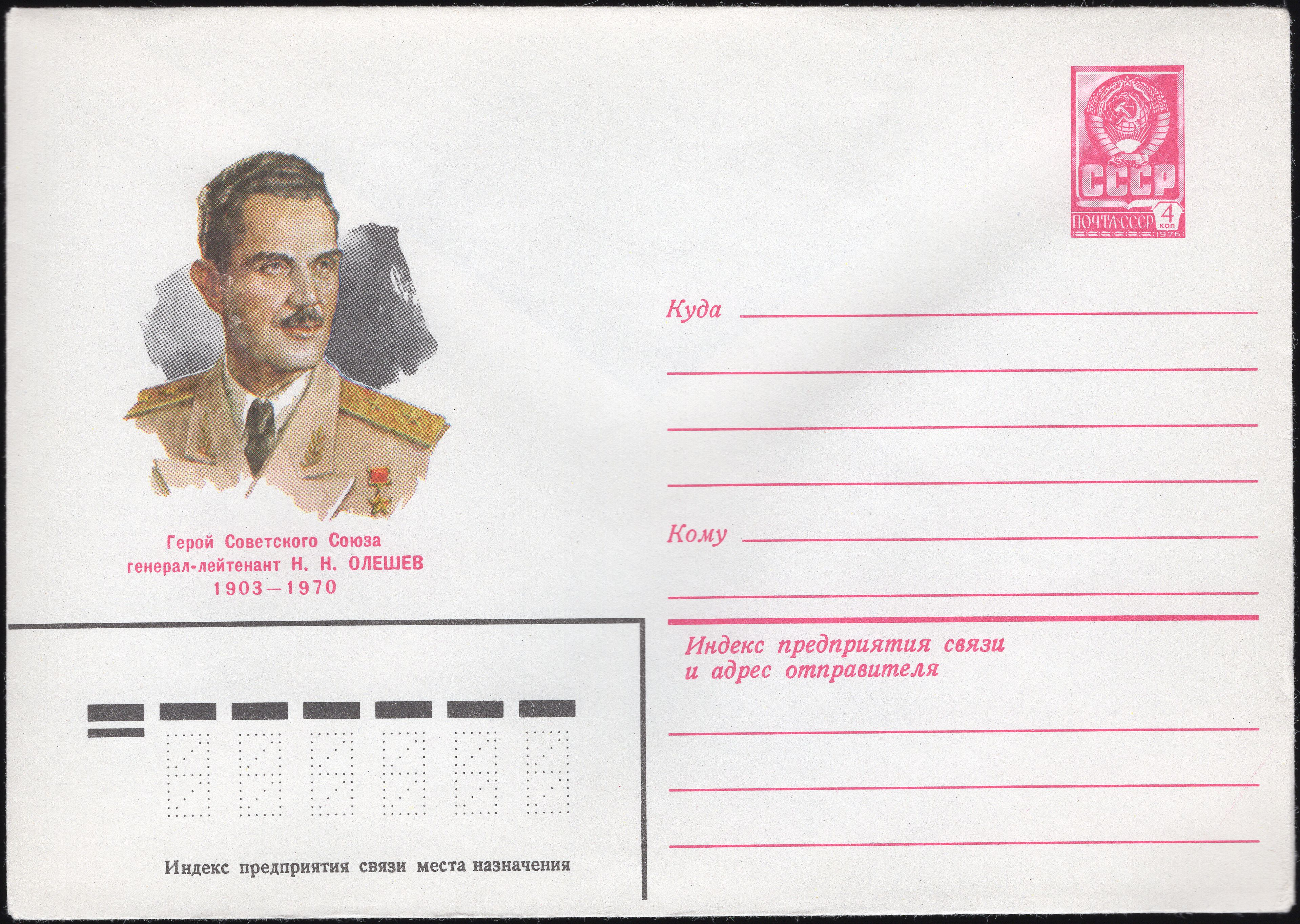 Hero of the Soviet Union Lieutenant general Nikolay Oleshev. 1903-1970. Series: Heroes of the Soviet Union. Artist Peter Bendel.